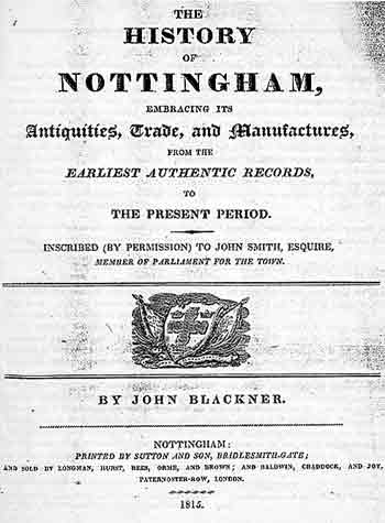 John Blackner's History of Nottingham's cover from 1815